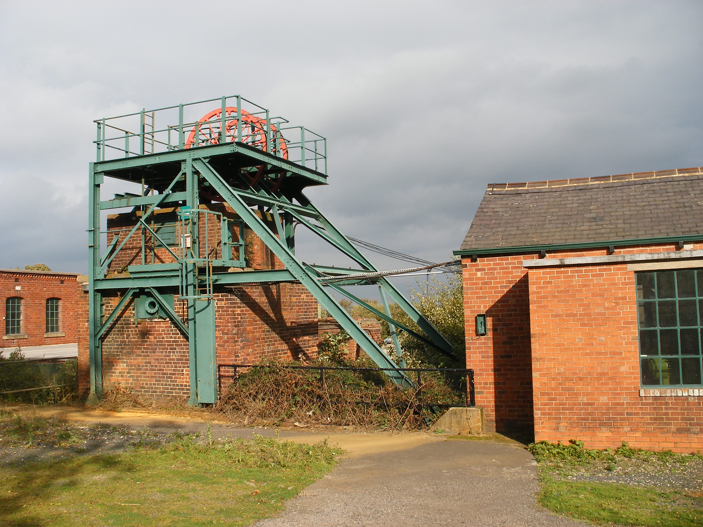 Hope Pit, Caphouse Colliery (Overton Colliery) in Overton, near Wakefield, West Yorkshire, England